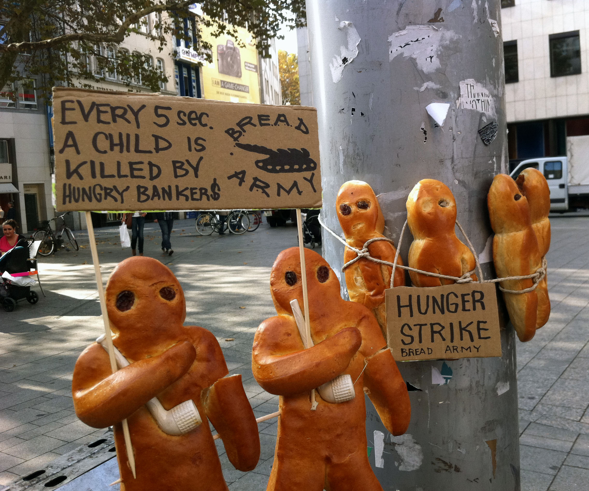 German artist Hermann Josef Hack: Weckmann-Demo intervention of the Bread Army in Cologne on 23 October 2012 "Every 5 seconds a child is killed by hungry bankers"